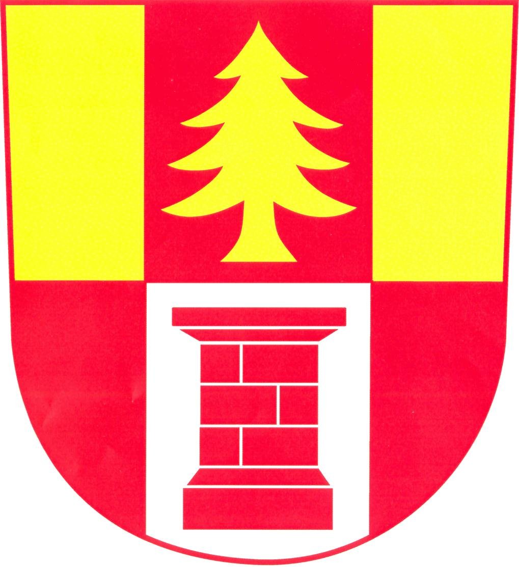 Coat of amrs of Nučice , District Prague East, Czech Republic